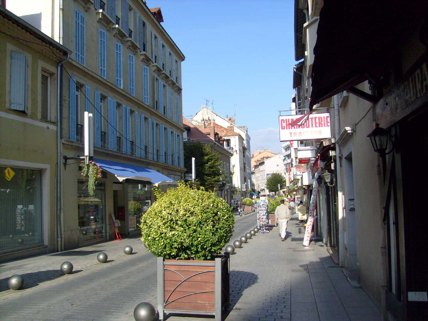 Carnot street, Gap, Hautes-Alpes, France